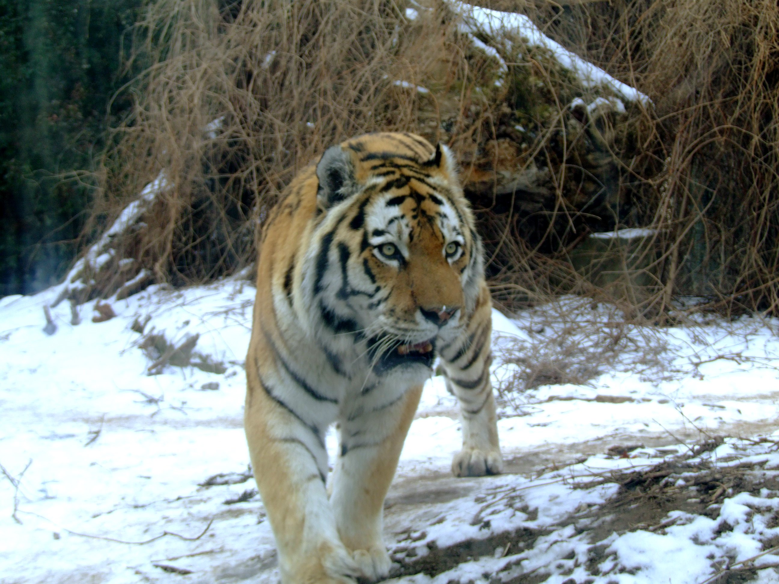 Siberian tiger photographed in Zoo Schönbrunn